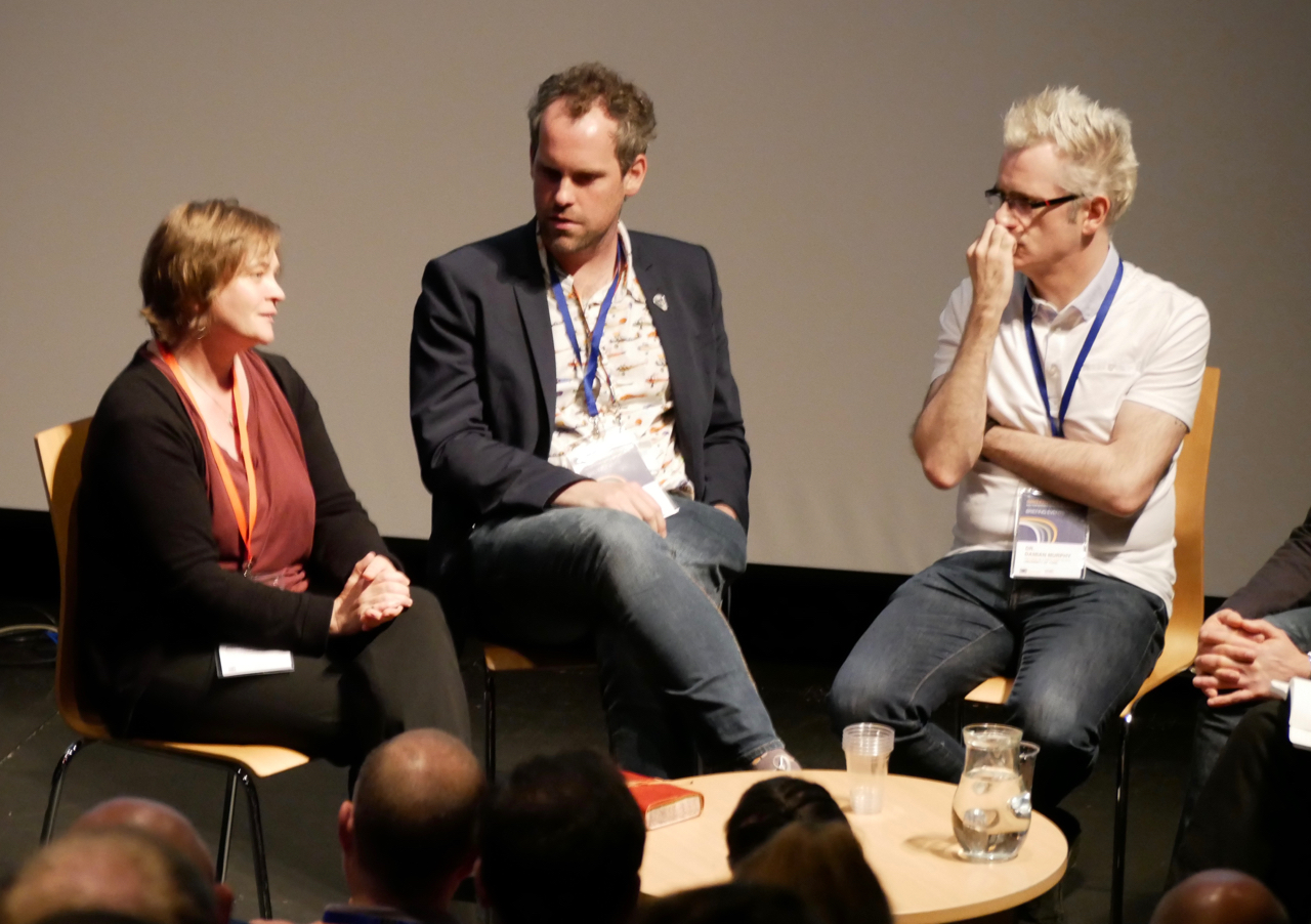 Professor Andrew Chitty, AHRC Creative Economy Champion (Chair) Dr Gareth Beale, Research Fellow Digital Creativity Labs, University of York Dr Melanie Giles, Senior Lecturer in Archaeology, University of Manchester Dr Gavin Kearney, Lecturer in Audio and Music Technology, University of York Dr Damian Murphy, Reader in Audio and Music Technology, University of York